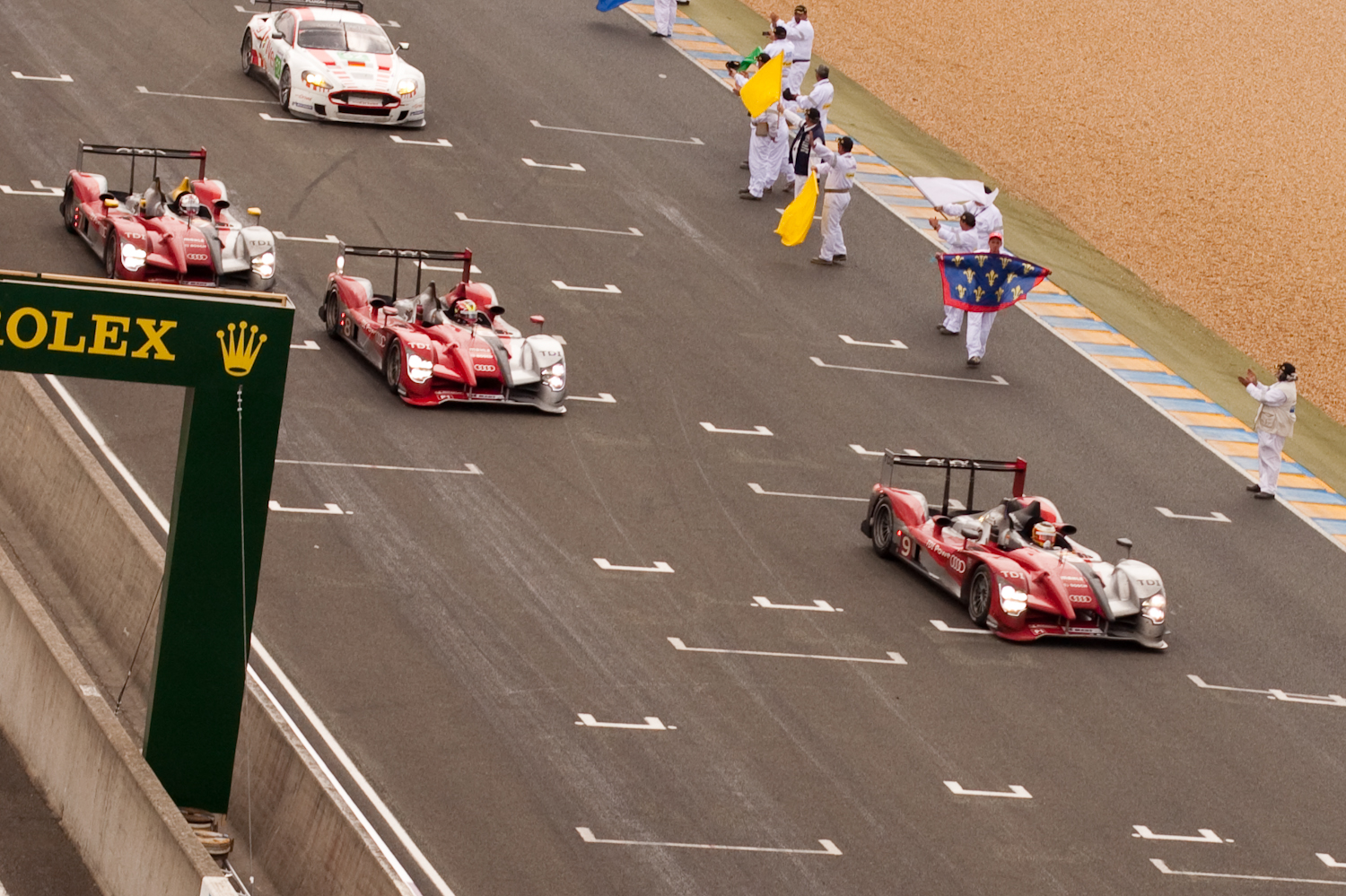 Finish. Mike Rockenfeller (#9), Benoît Tréluyer (#8) and Rinaldo Capello (#7)